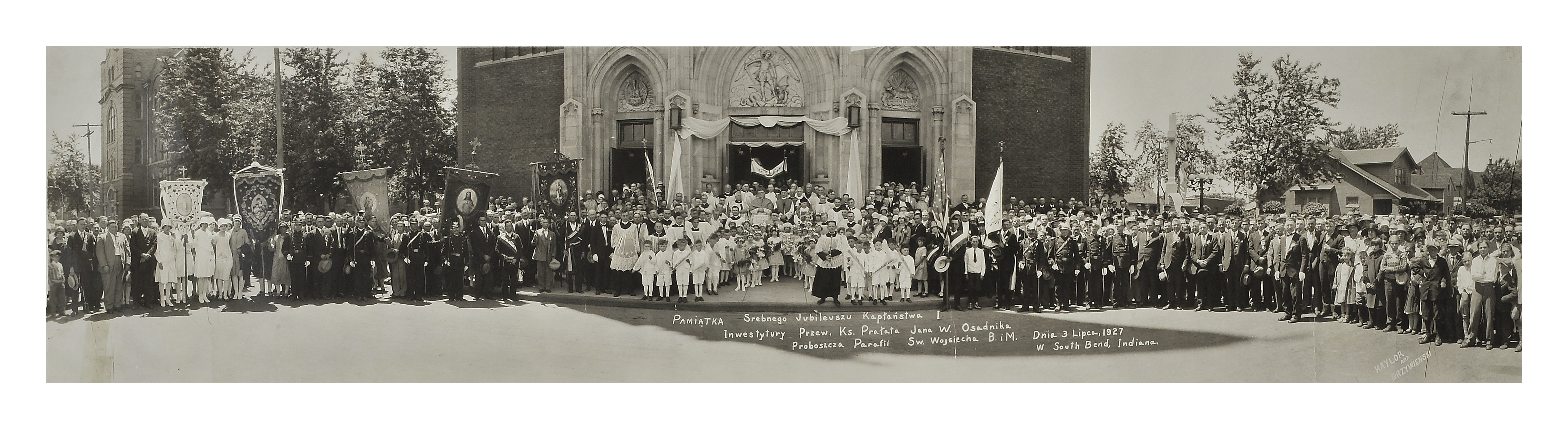 Parishioners of St. Adalbert Parish gather outside the church for a photo with Msgr. Jan Osadnik on the occasion of his investiture as Monsignor.